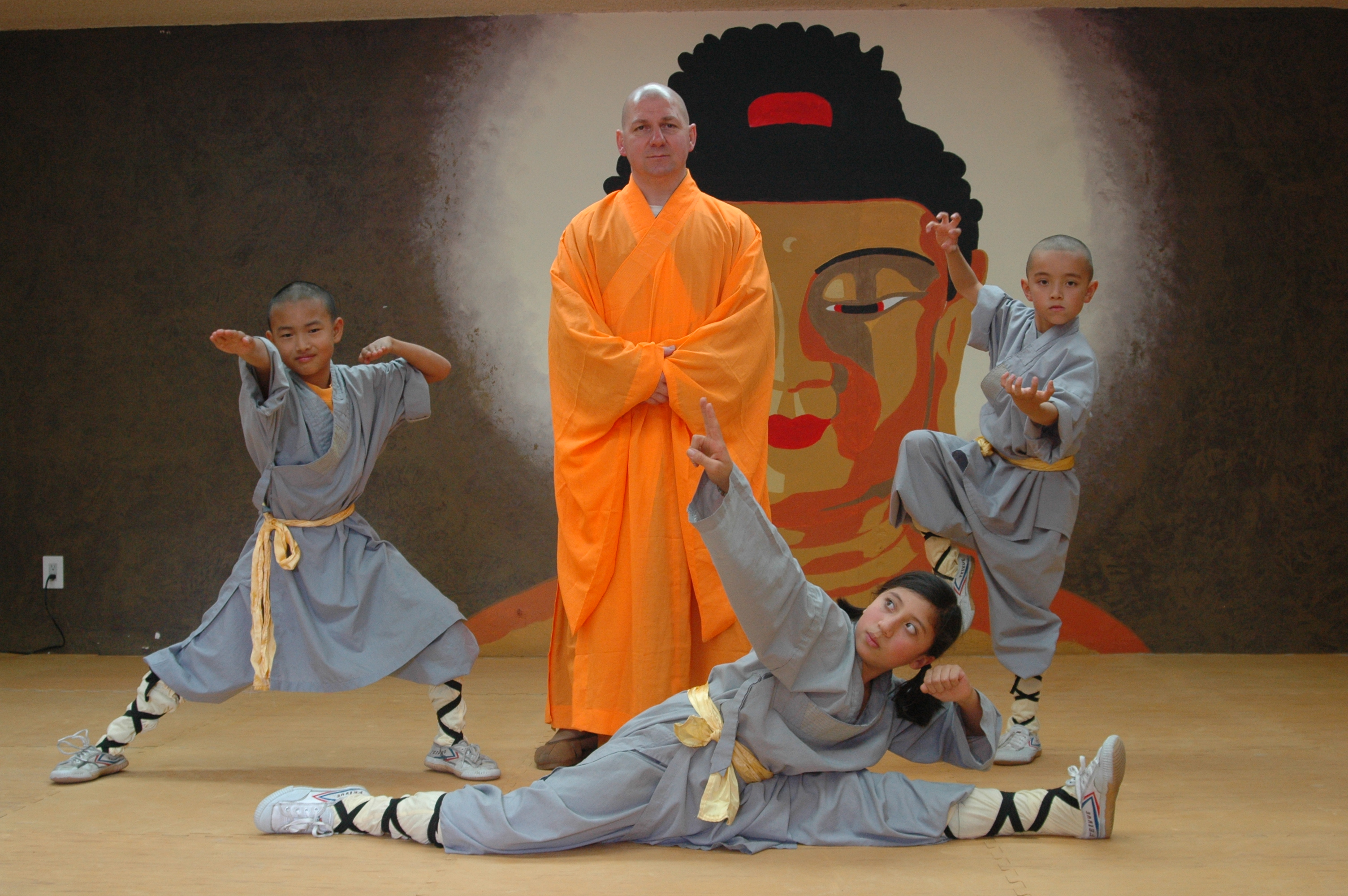 Shi Yan Fan with young Shaolin Warriors in training. Kevin Song, Isabella DiPrima, Nicholas DiPrima